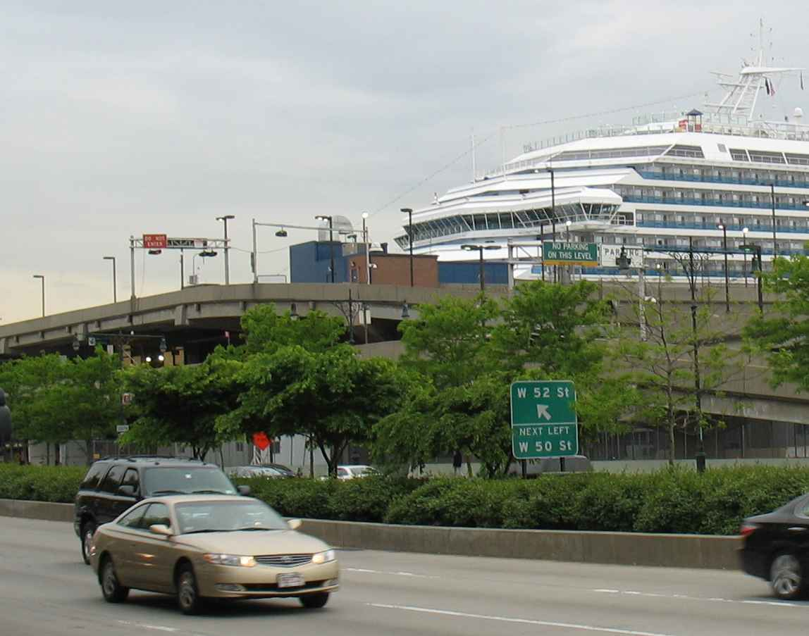 52nd Street Ship Terminal on West Side Highway in Hell's Kitchen